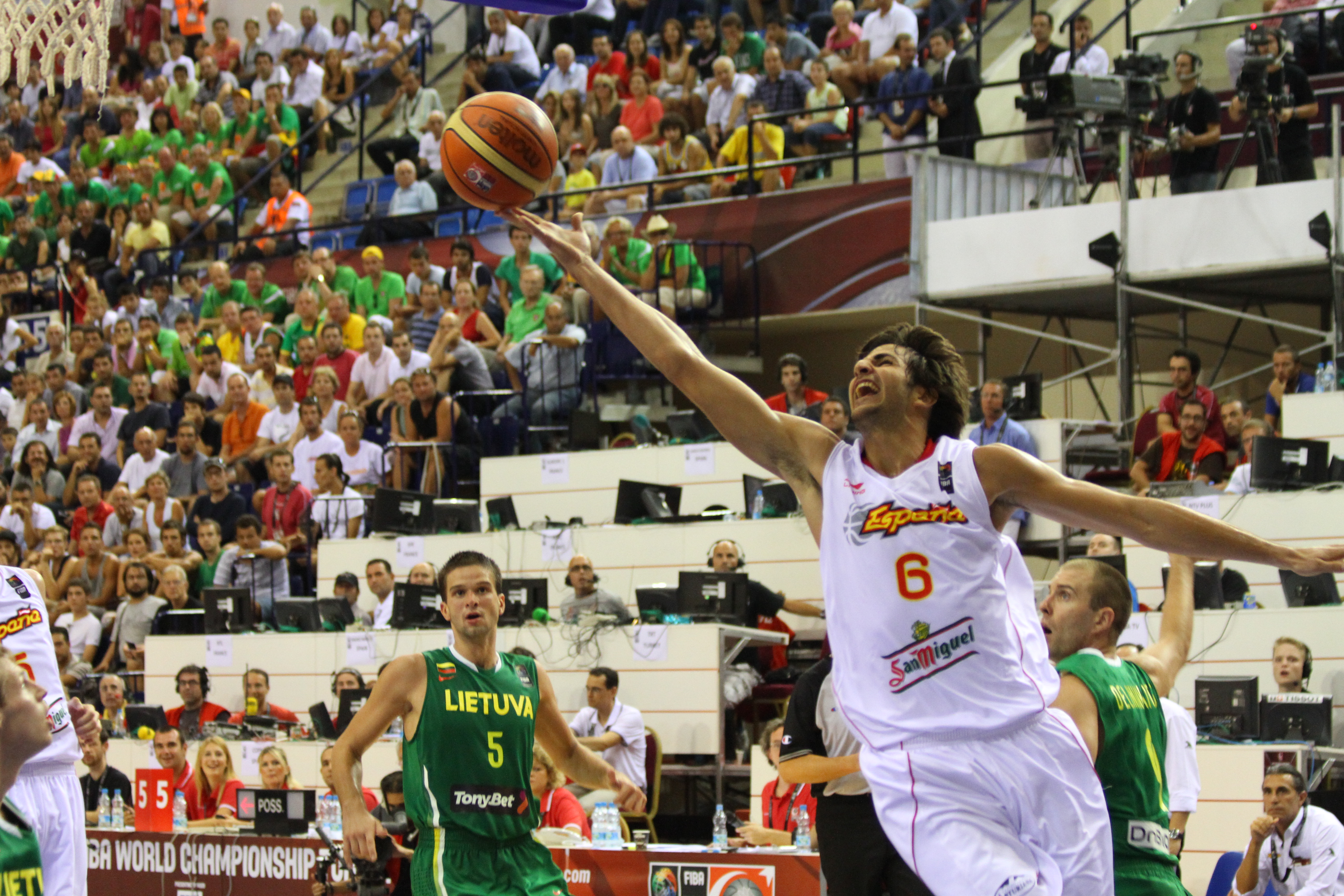 Lithuania-Spain game during 2010 FIBA World Championship.